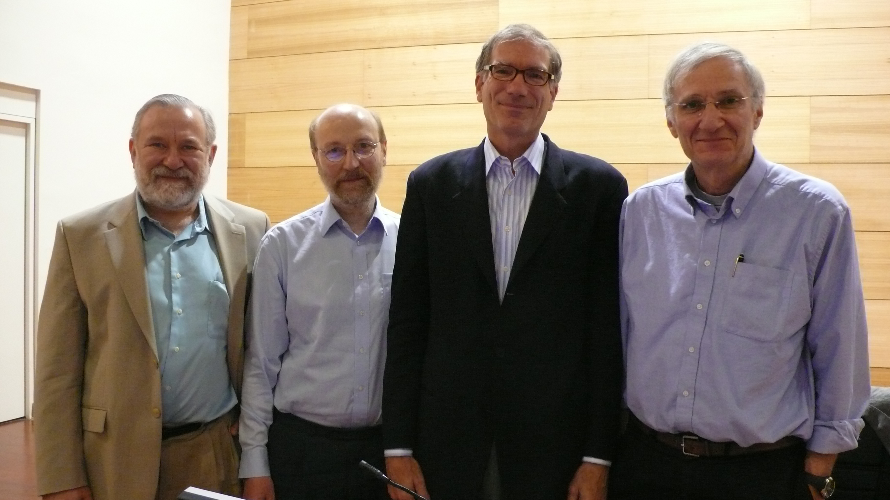 Peter Walter, Julian Lewis, Alexander Johnson and Martin Raff (left to right), authors of the science text book Molecular Biology of the Cell edited by Bruce Alberts